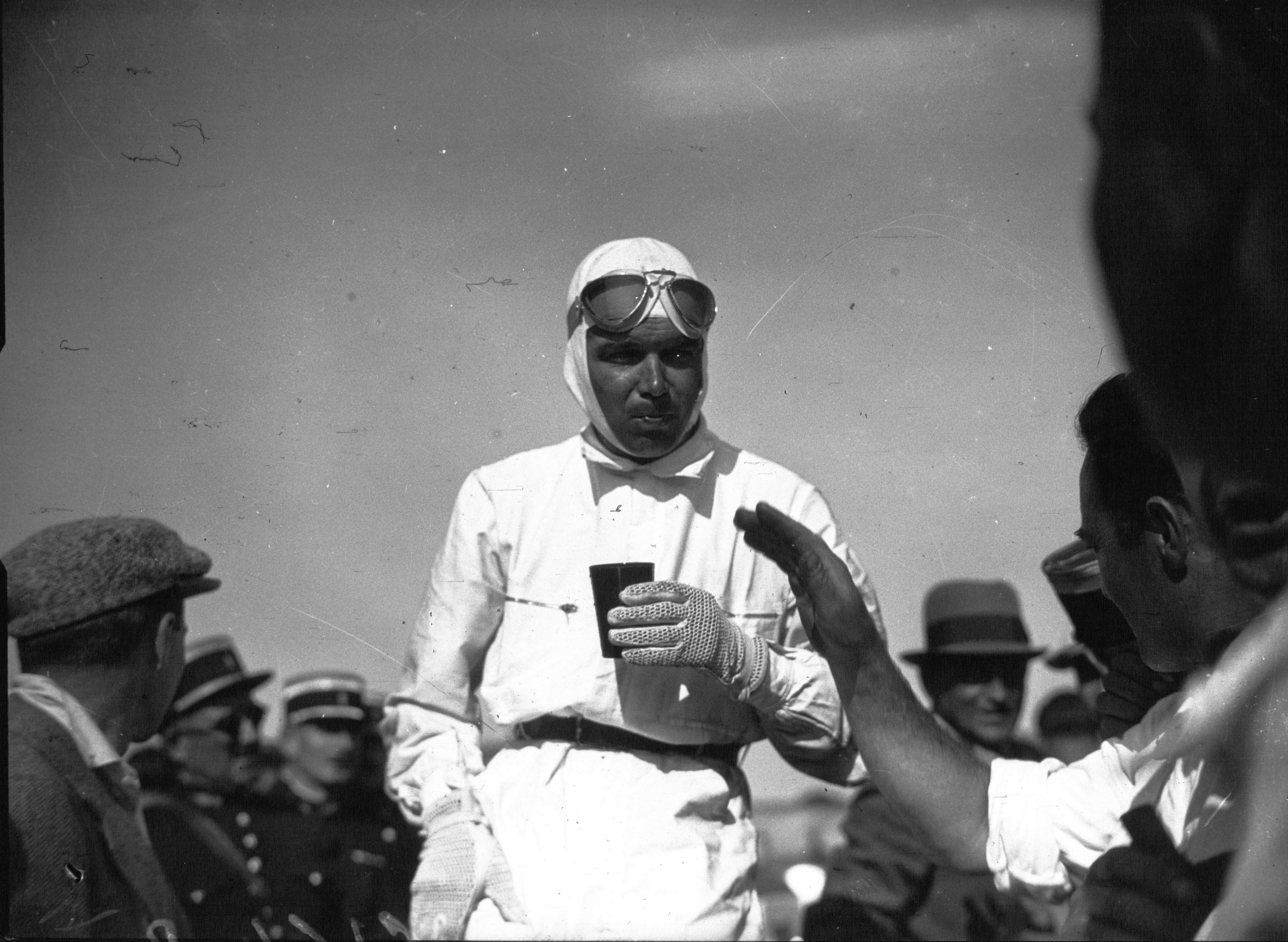 Rudolf Caracciola at the 1935 French Grand Prix